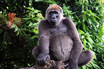 Cross River gorilla, Limbe Wildlife Centre, Cameroon. Photo taken by Arend de Haas, African Conservation Foundation